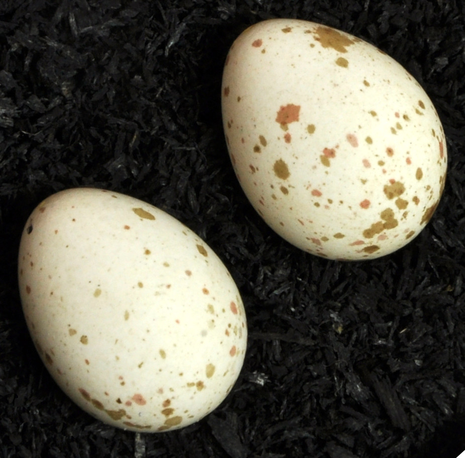 Azure tit Cyanistes cyanus , egg, Coll. Museum Wiesbaden